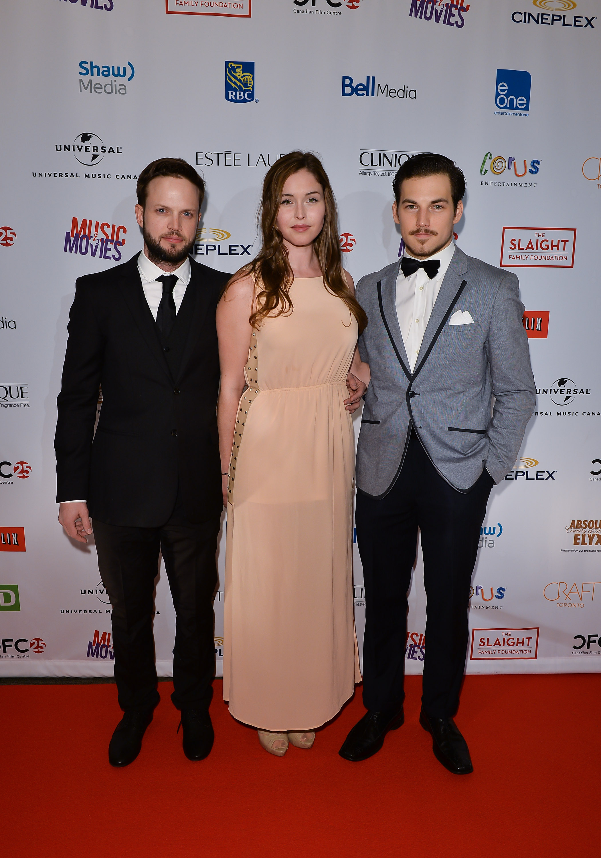 Eric Murdoch, Natalie Krill, Giacomo Gianniotti This year, the CFC Annual Gala & Auction took guests on a spectacular journey through film with MUSIC & MOVIES.